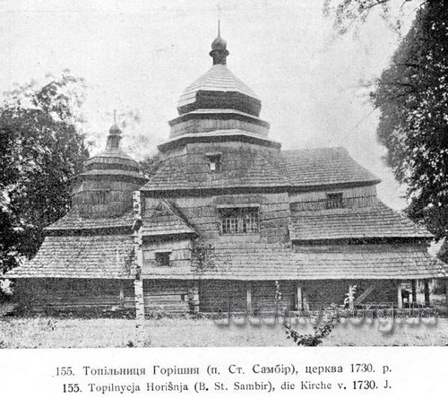 Church of the Assumption of the Blessed Virgin. Village Topilnytsya. Ukraine.